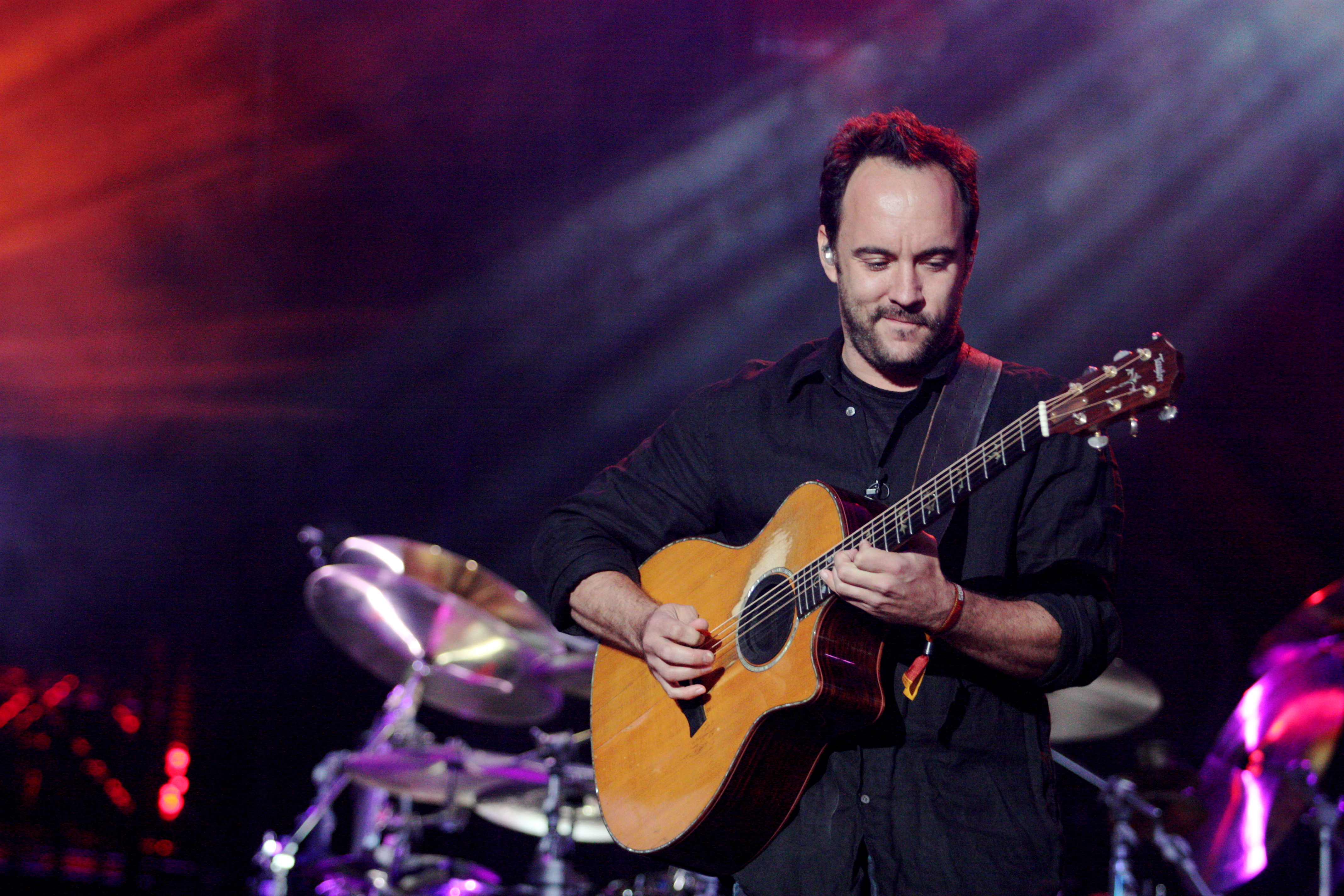 Dave Matthews performing with the Dave Matthews Band at the Outside Lands 2009